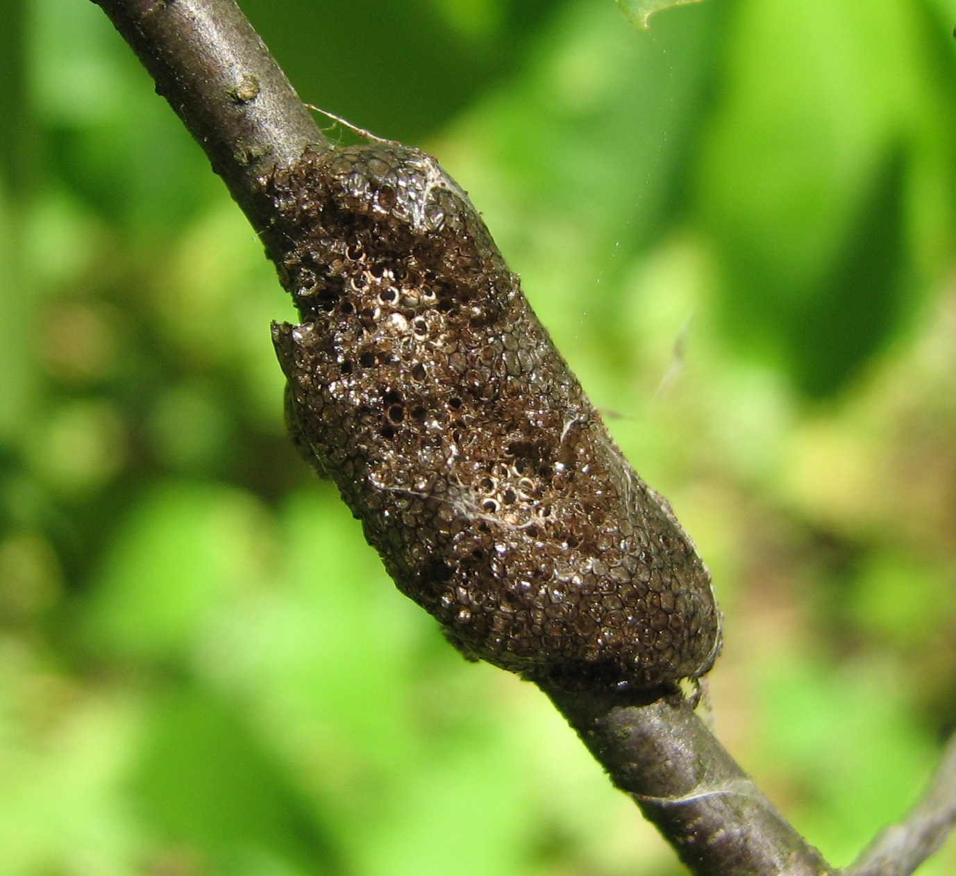 Egg mass of Malacosoma americanum (Eastern Tent Caterpillar Moth - Hodges#7701) on wild cherry. Pennypack Ecological Restoration Trust, Montgomery County, Pennsylvania, USA.